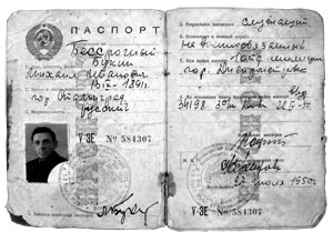 Soviet passport of Nazi collaborator Mihail Bukin